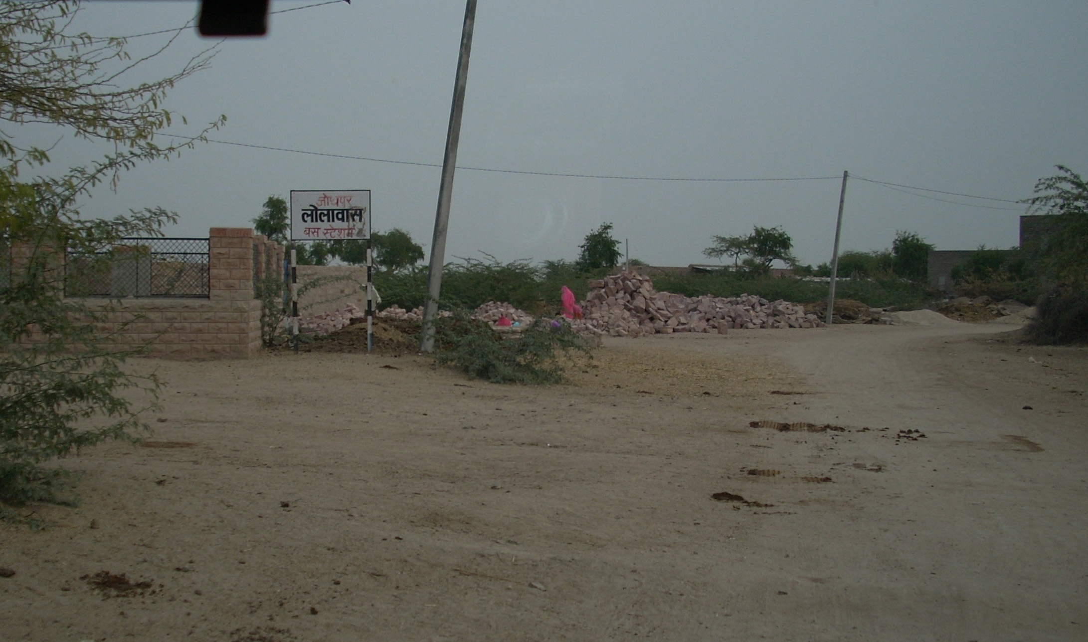 Village near Jodhpur